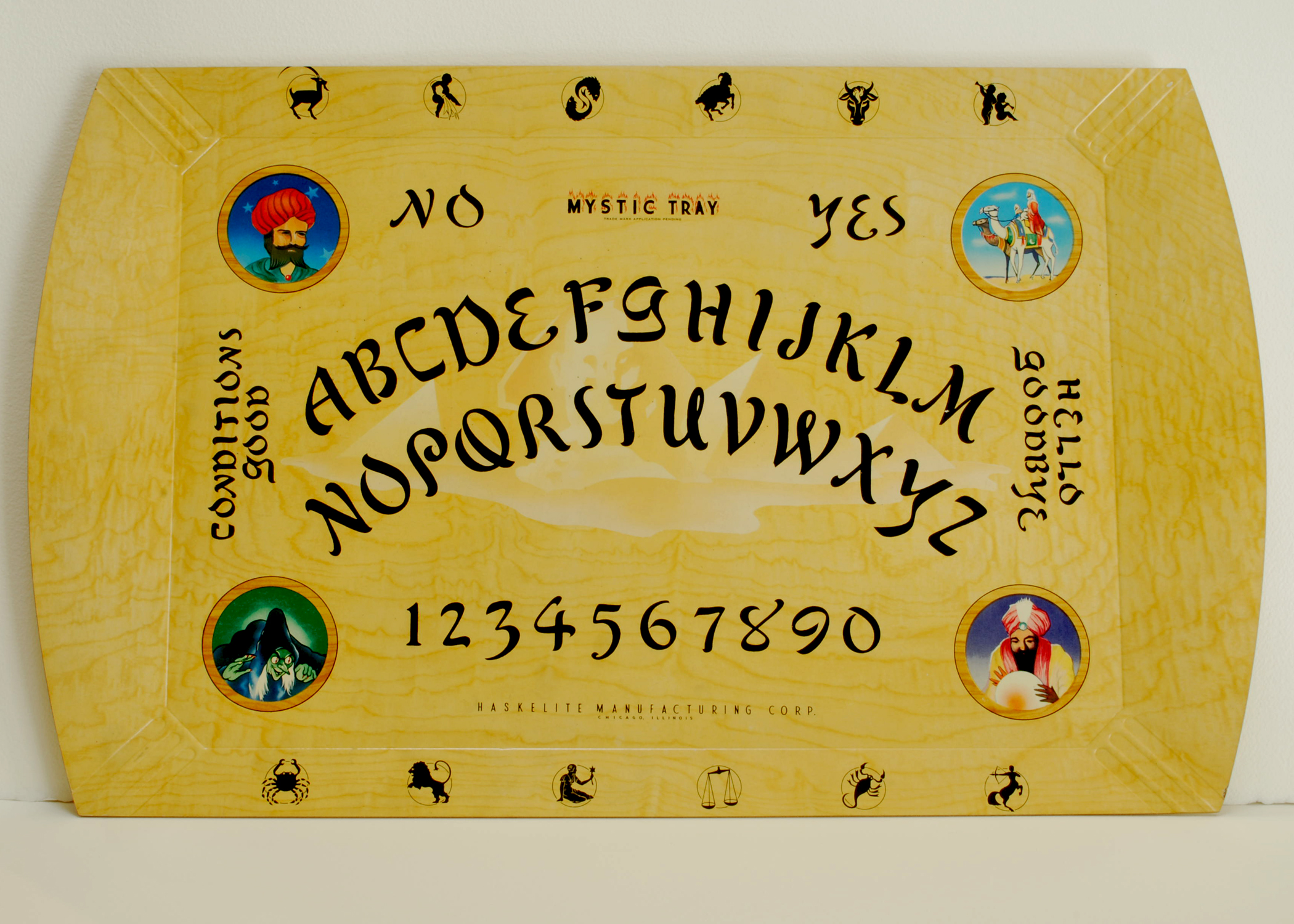 Mystic tray made by Haskelite Manufacturing Corporation